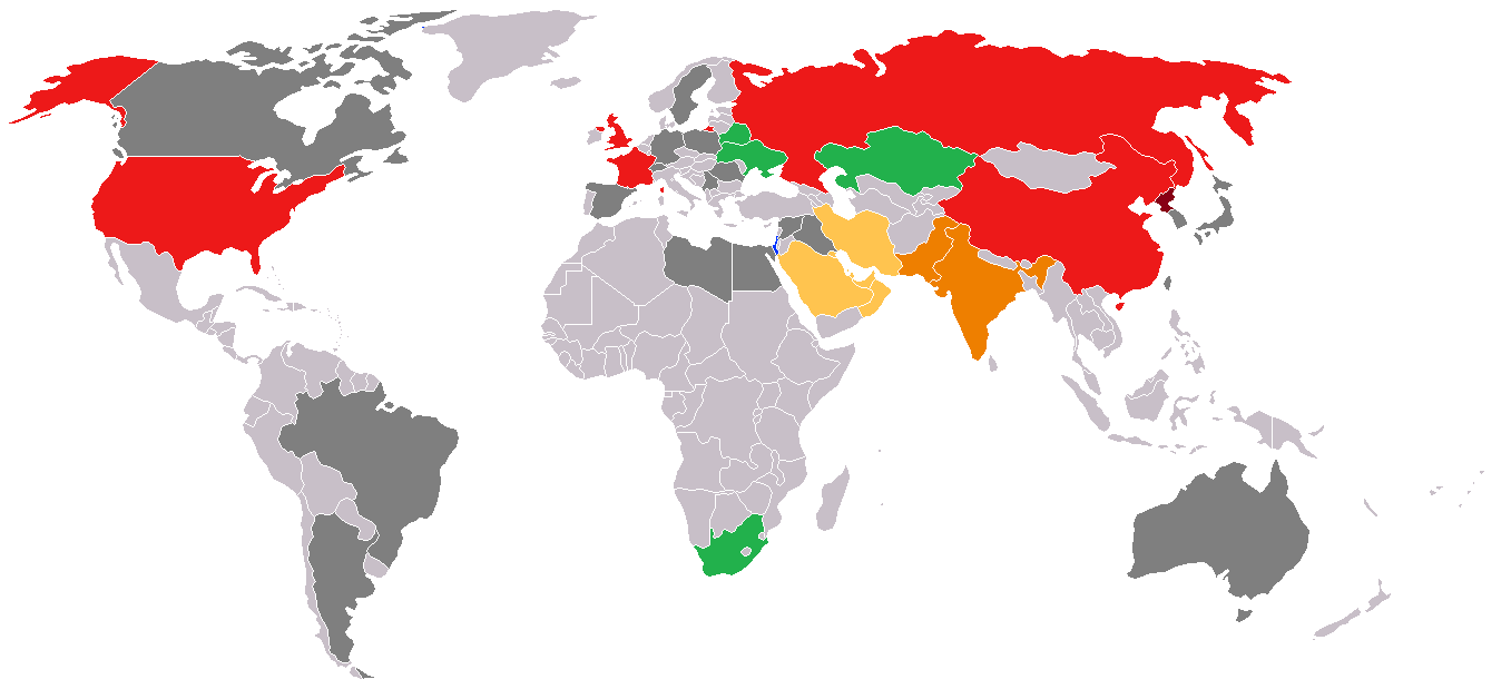 World map with nuclear weapons development status represented by color. As of March 2007. Five "nuclear weapons countries" from the NPT Other known nuclear powers (India and Pakistan) Other presumed nuclear powers (Israel) Countries that possess nuclear weapons, but have not widely adopted them (North Korea) Countries suspected of being in the process of developing nuclear weapons and/or nuclear programs Countries formerly possessing nuclear weapons (Belarus, Kazakstan, South Africa and Ukraine) Countries which at one point had nuclear weapons and/or nuclear weapons research programs See List of states with nuclear weapons, for details on the countries identified on the map. I edited a previous version of this file (found here (Image:Nuclear_weapon_programs_worldwidenew.png)), making it clear that North Korea's nuclear status is not clear, and changed the color scheme slightly to make it easier to read. (There are some mistakes on this map: Spain may develop nuclear weapon at any moment and it's thought Israel owns nuclear weapons. Perhaps someone could change this map to give a better information, thanks!!)